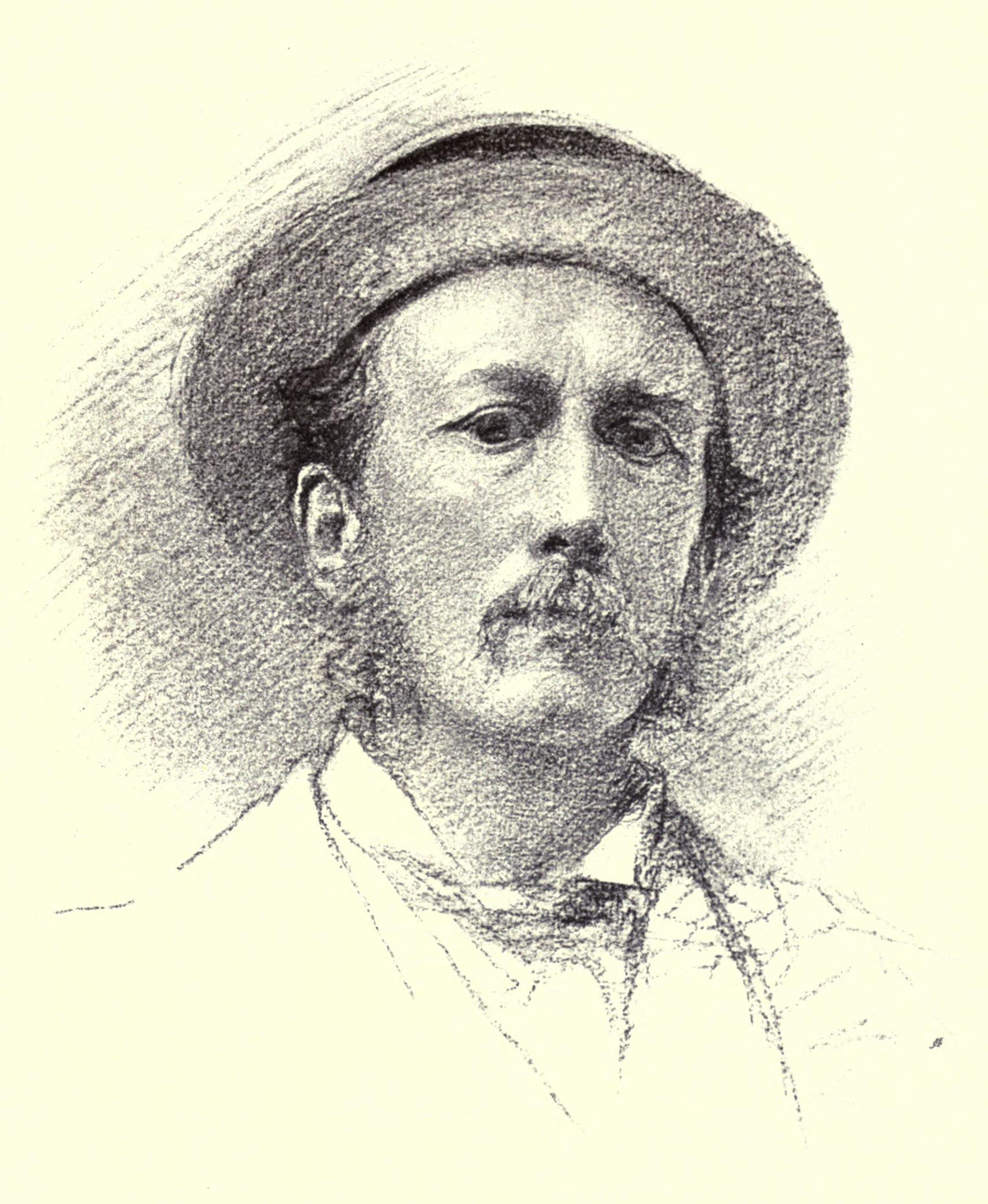 Self-portrait of George W. Joy. Executed for The Magazine of Art